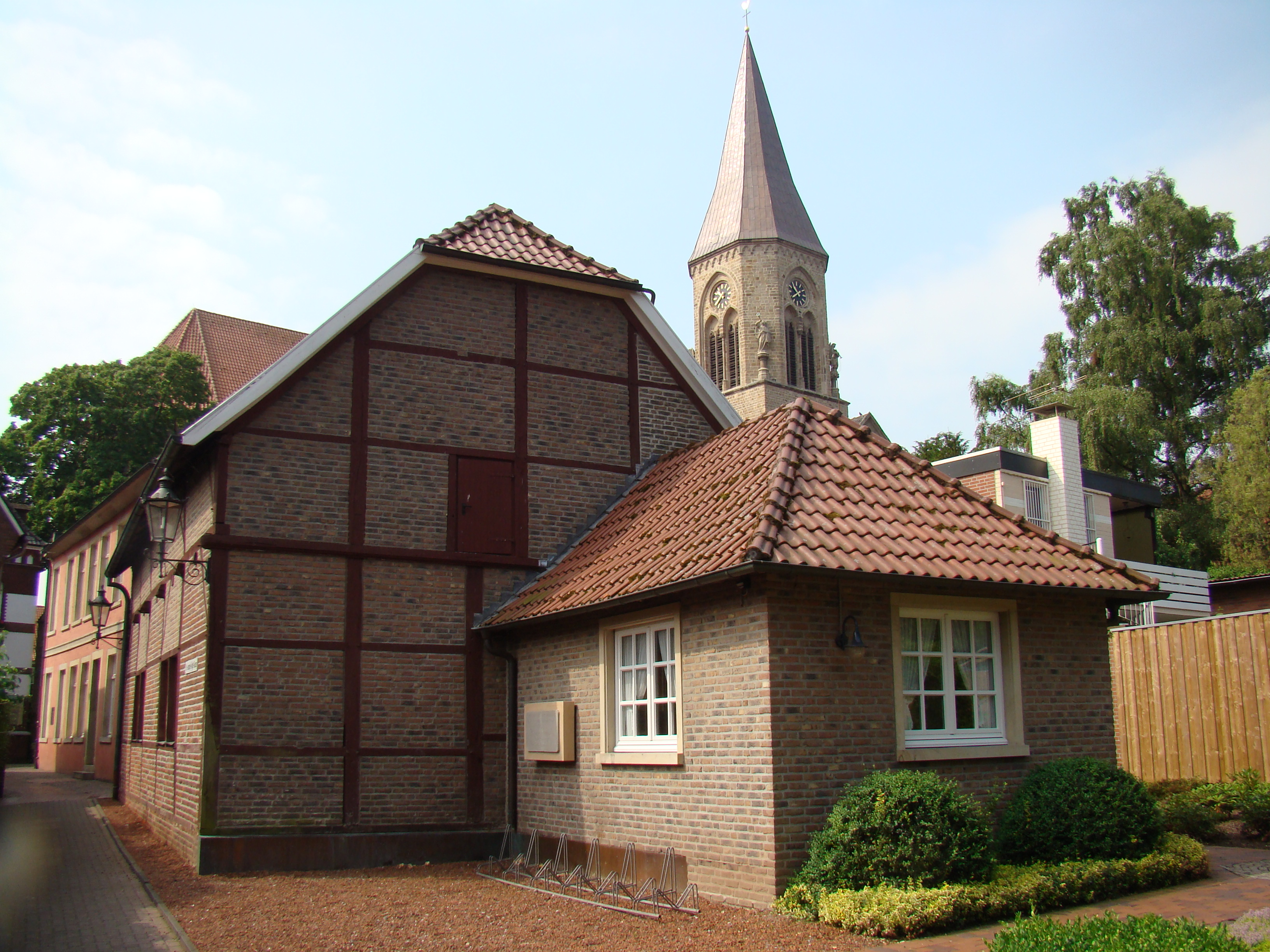 Centre of Stadtlohn